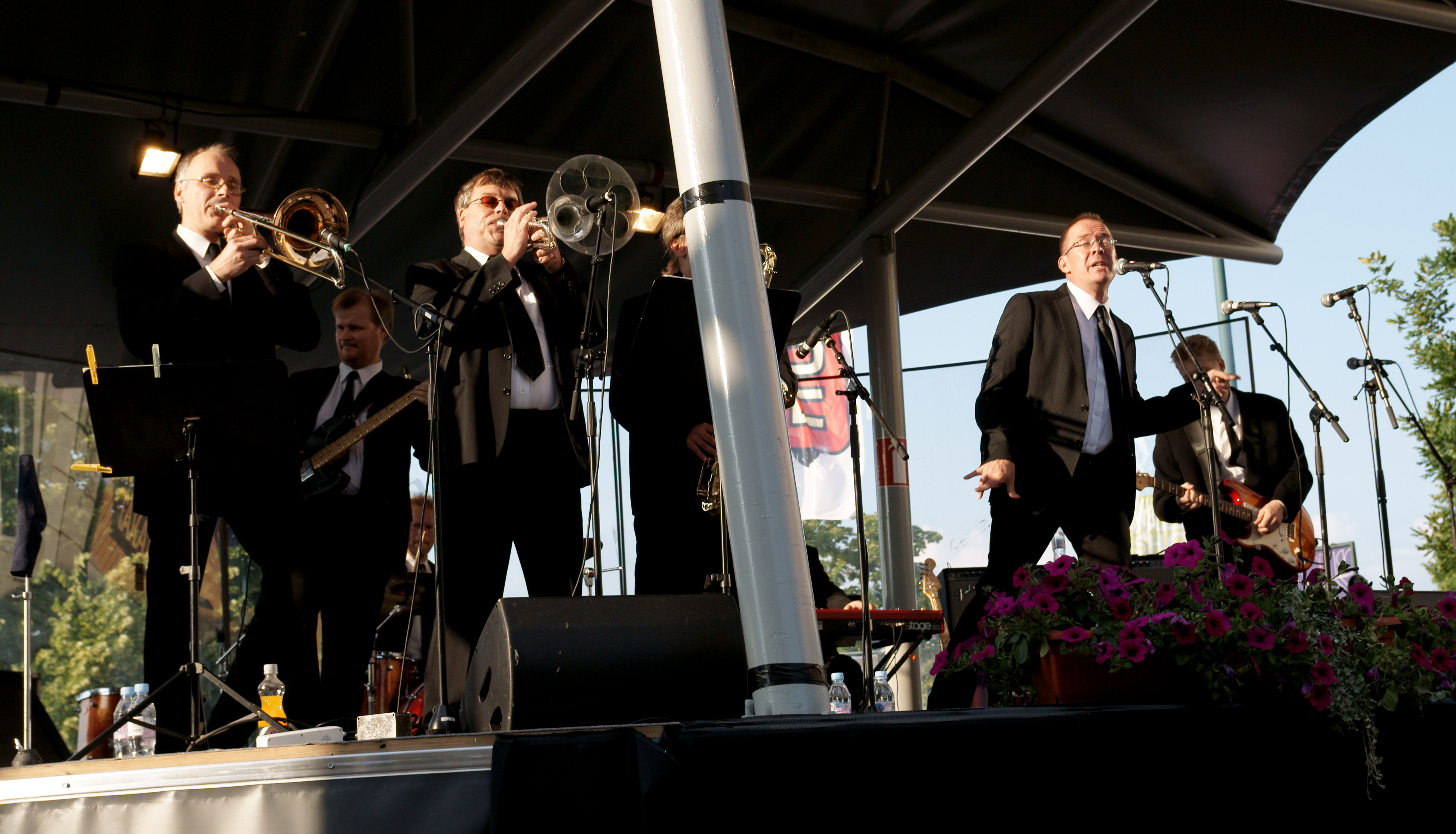 SlowGang performing in Pori Jazz -Nova stage.